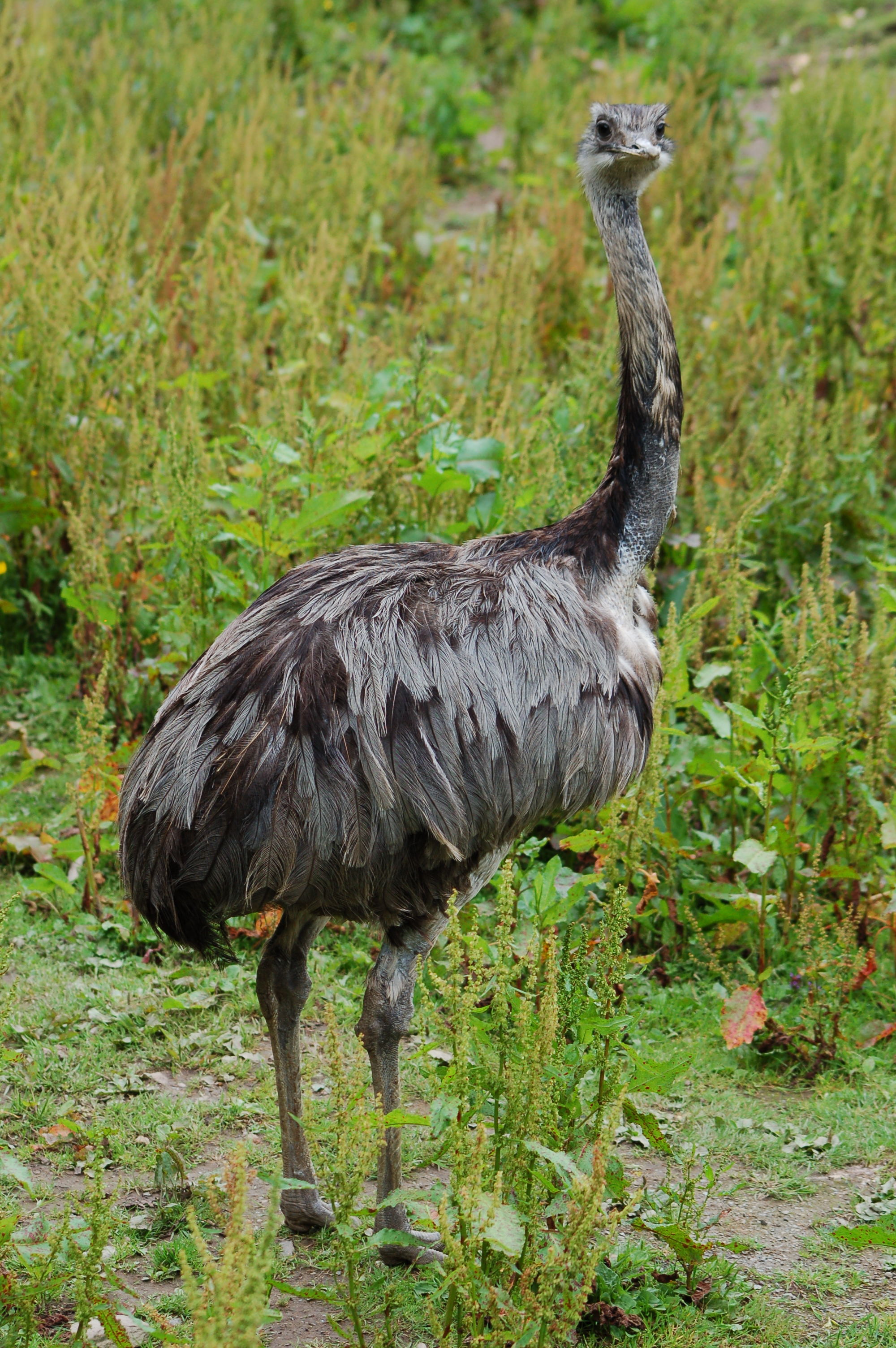 Photograph of a common rhea taken at the Galloway Wildlife Conservation Park, Kirkcudbright, Scotland.